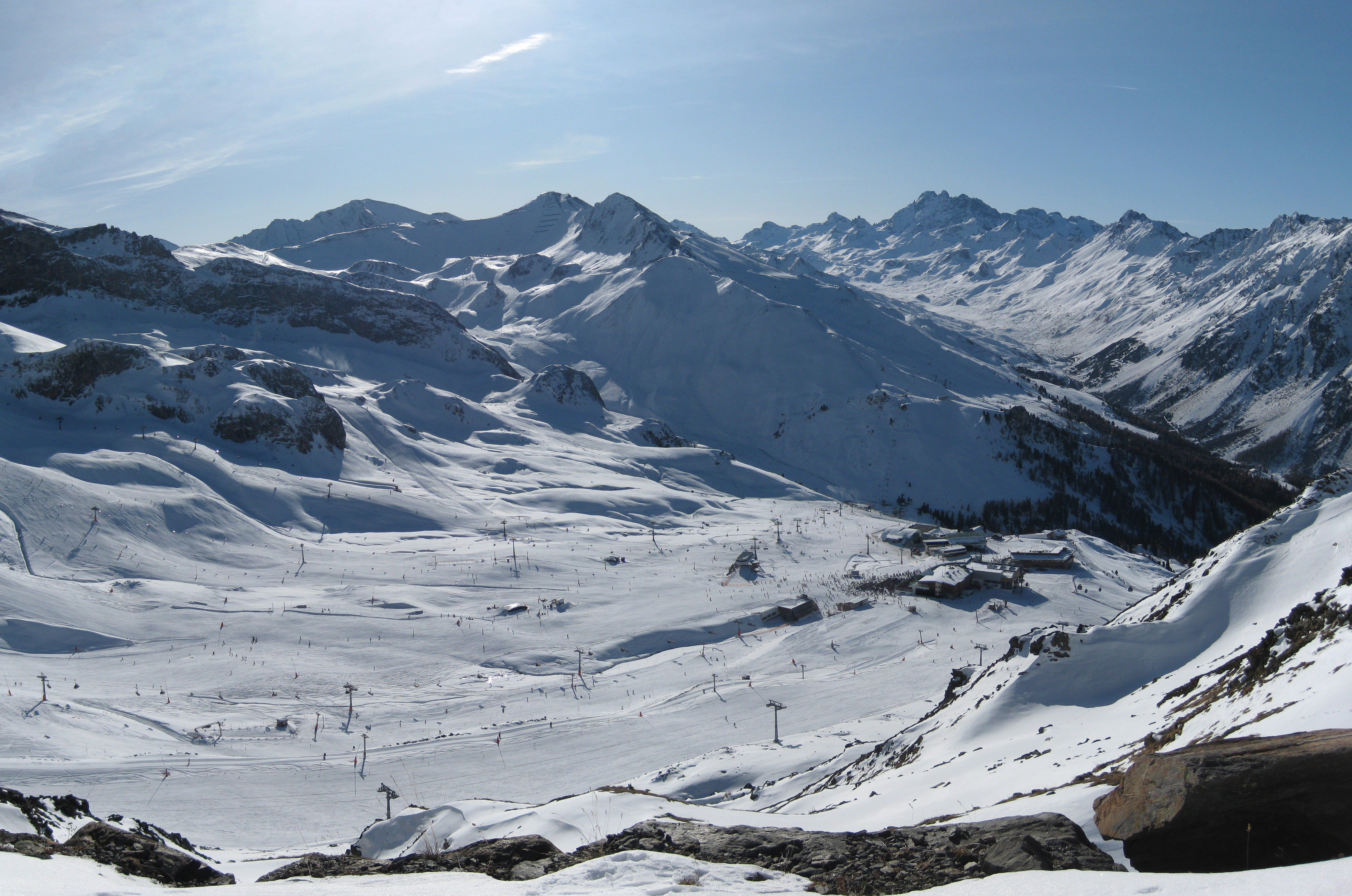 Panoramic view (made of four photos) of Ischgl snow tracks from top